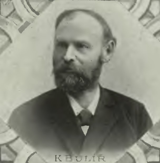 Portrait of Karel Bulíř (1840-1917), Czech teacher, editor and writer.